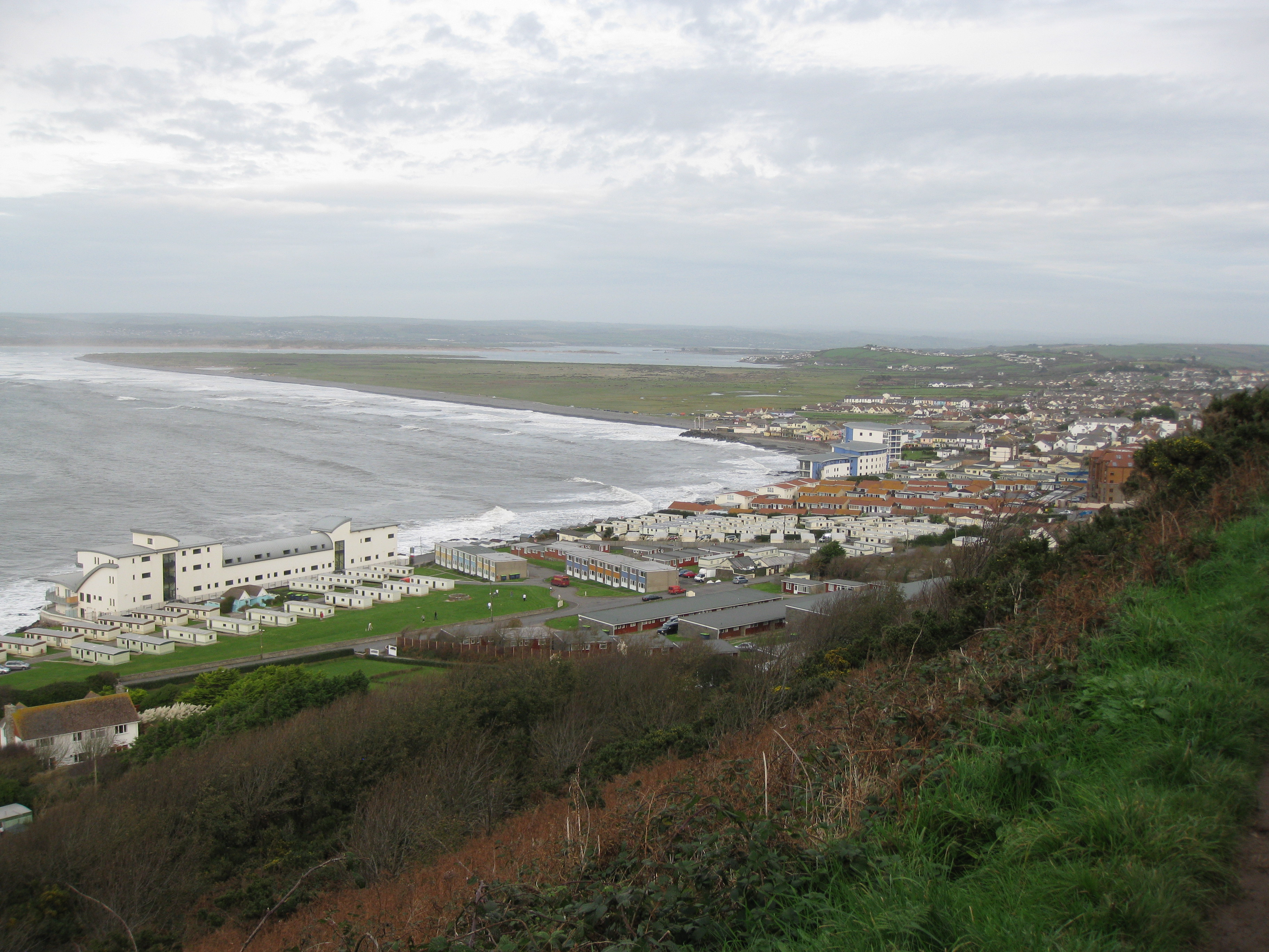 Westward Ho! view from the cliffs